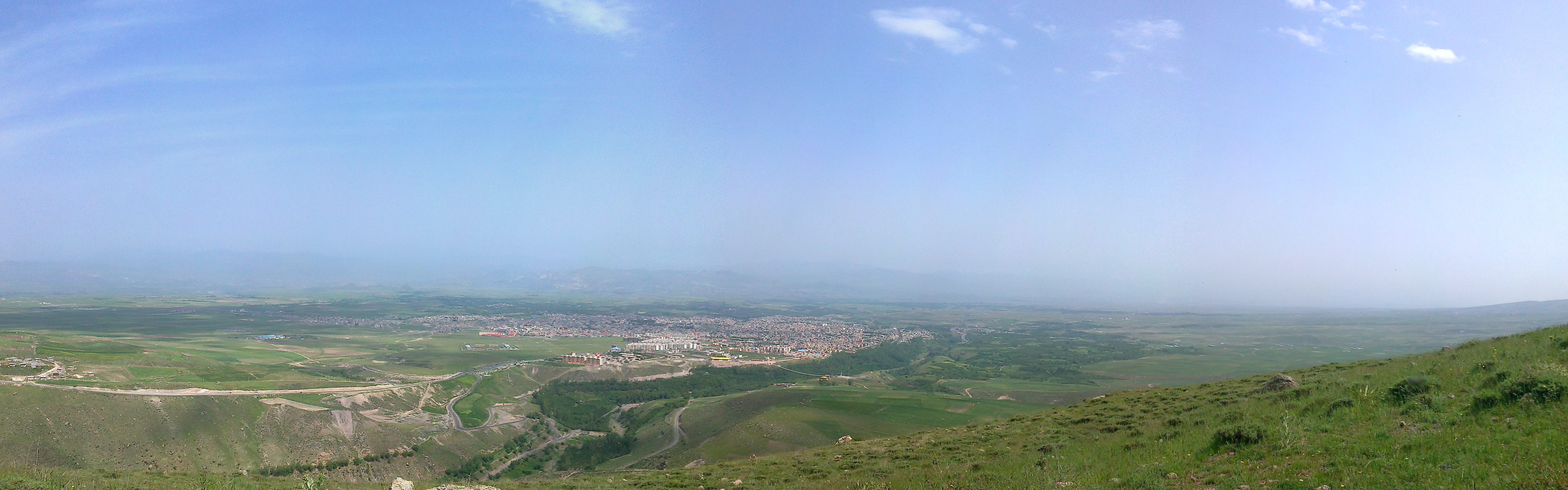 Meshkin Shahr Panorama